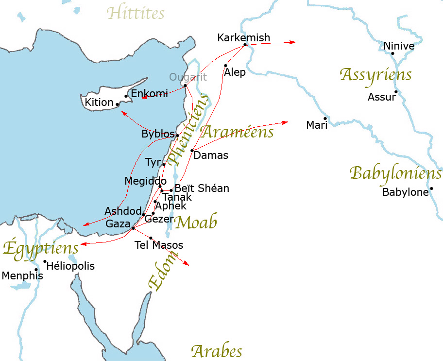 The map shows the main trade routes across Palestine at the beginning of Xth century. Commercial exchanges are done between Egypt, Phoenicia, Cyprus, Assyria, Arabia. Drawn mainly using Mario Liverani, “Israel's History and the History of Israel”, p.72, p.115.